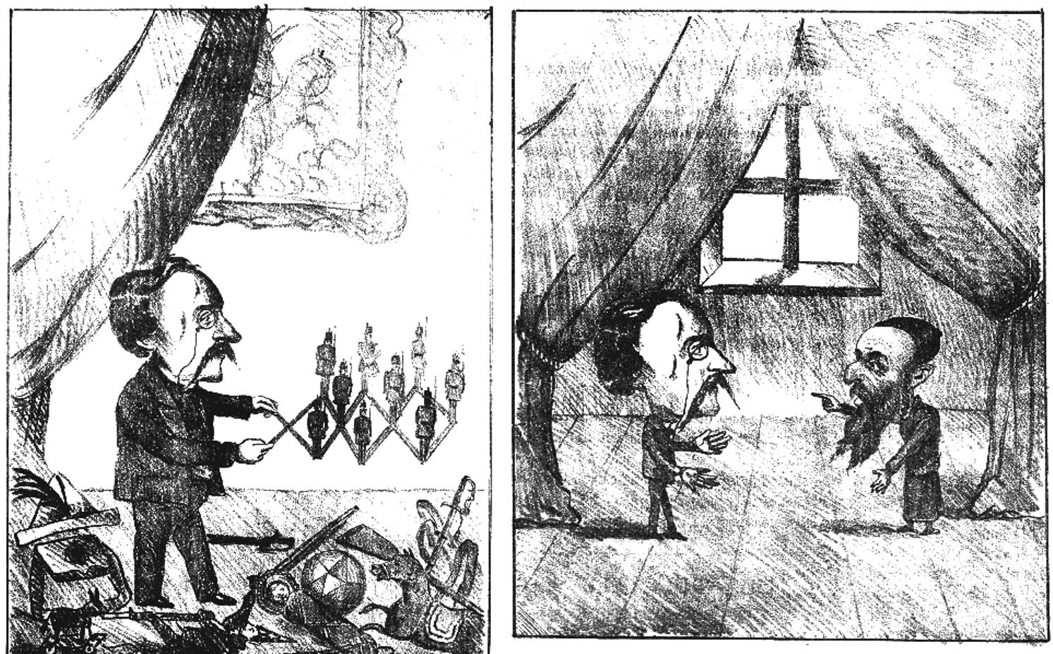 Two-panel cartoon in Ghimpele, the Romanian liberal magazine. Published at the peak of a biannual liberal regime, it satirizes the conservative opposition, represented here by its Moldavian speaker, Petre P. Carp. Carp had recently taken a stand in defense of core conservative policies: 1) defending the status-quo in Eastern Europe, against Balkan guerillas discreetly supported by the liberals in Bucharest; 2) promoting Jewish emancipation, against the antisemitic nationalism of liberal leaders.Left panel, titled Jucâriile domnuluĭ Carpŭ ("Mr. Carp's Toys"): Jatâ ce ințelege D. Carpŭ prîn bande armate - care cutreerŭ magad̦inele de jucâriĭ. ("This is what Mr. Carp will claim are armed gangs — those roaming through the toy stores"). A flat denial of Carp's talk about Balkan guerillas present on Romanian soil.Right panel: an imaginary dialogue between Carp and a stereotypical Jewish man, his creditor (or usurer). Carp: — Ved̦ĭ tu dragă Jțic câ numaĭ noĭ boeriĭ vé apârâm? sâ nu cerĭ și tu dobĕnd̦ĭ marĭ ("— Do you see, my dear Izak, that only we aristocrats are defending you people? Don't you go charging us with high interest rates"). Izak: — Dobĕndâ, kikóne sâ ia tot una dupĕ capetele; și unde capete sunt slabe ca la D-vóstrâ și dobĕndâ e slabă ("— The interest rate, sire, that is charged different for each head; and where the head is feeble, as yours is, that rate is also feeble").